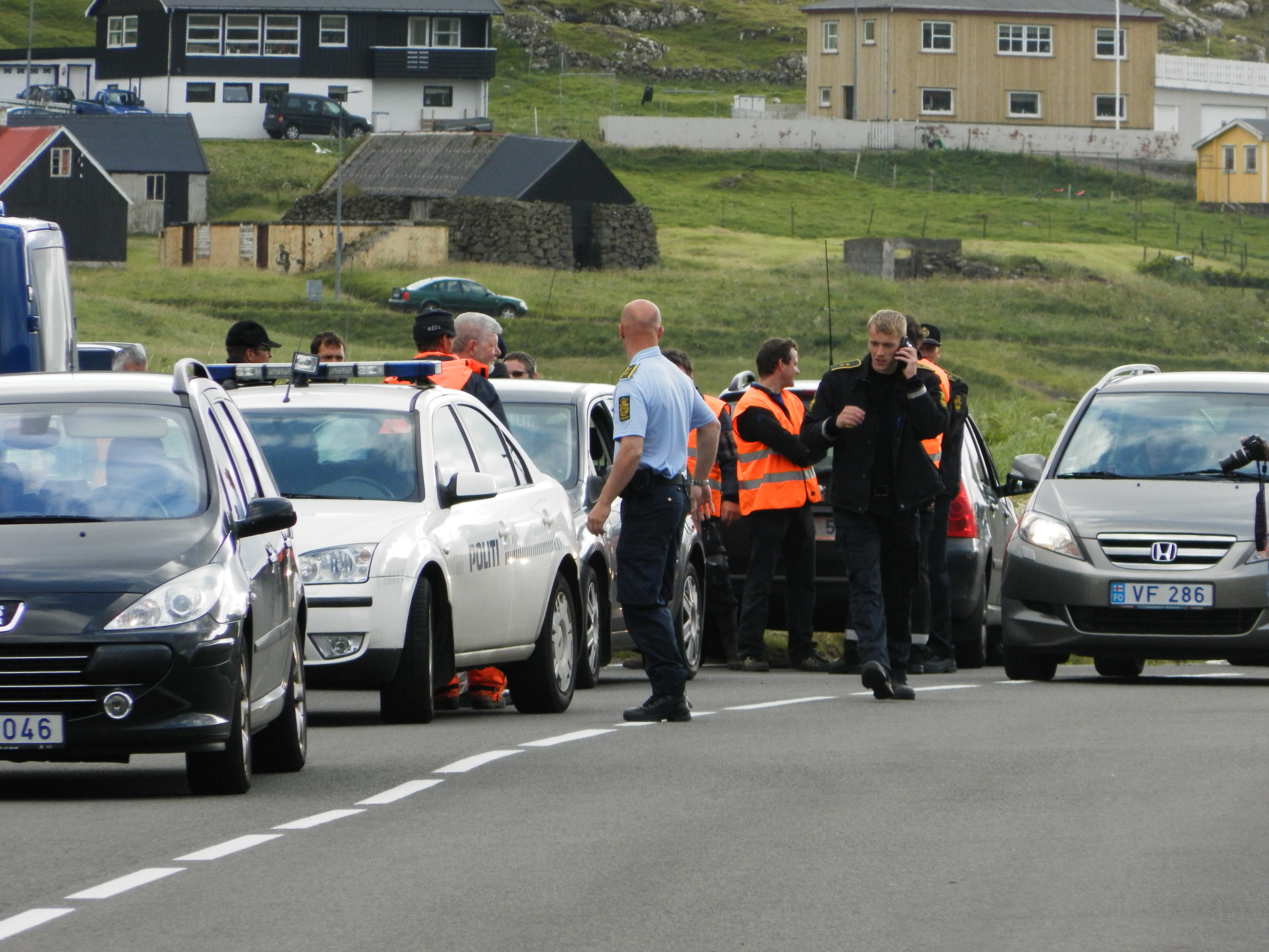 Hvalba, Faroe Islands on 12 August 2014.